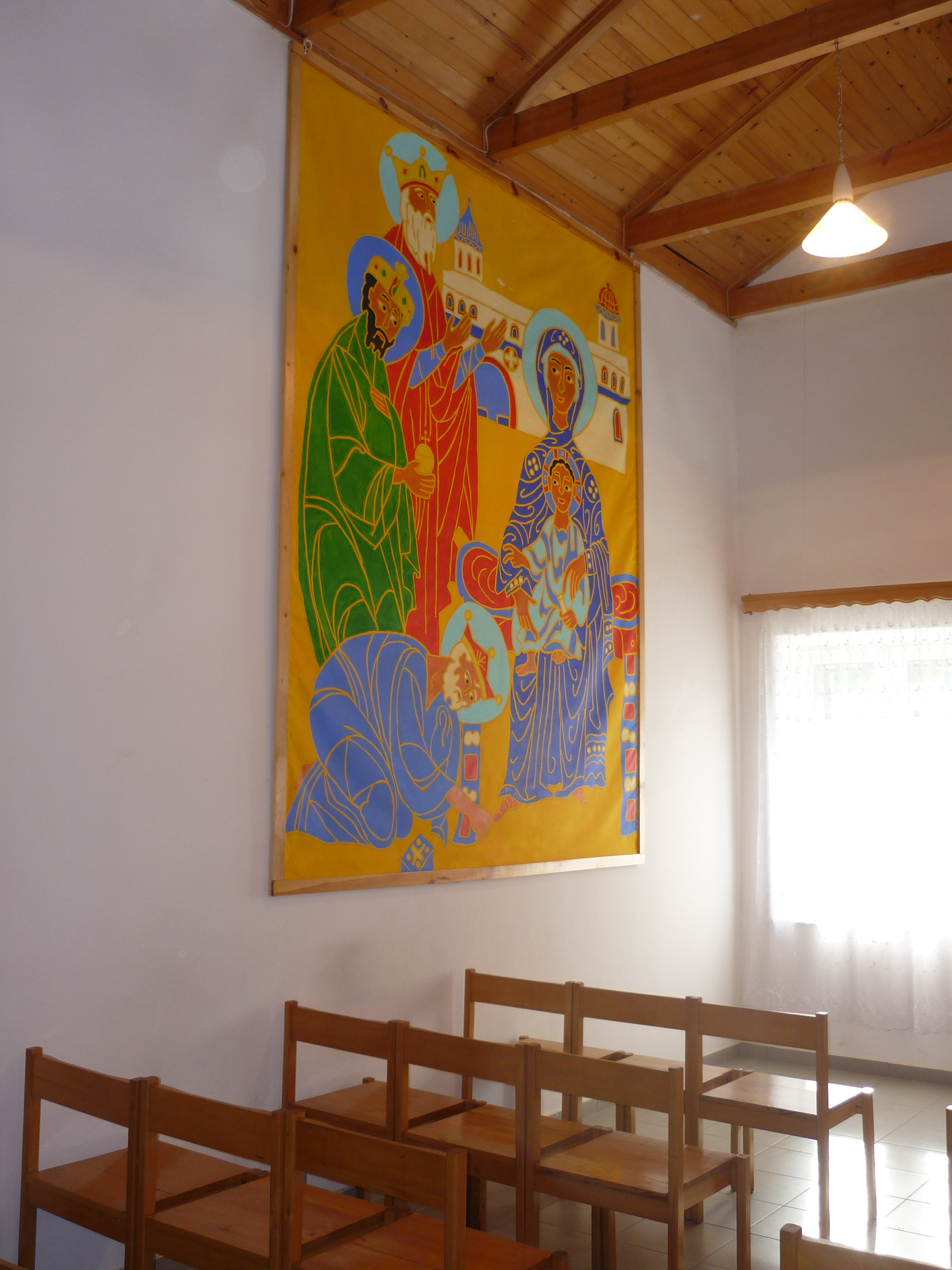 Lutheran Church of Bolnisi, Georgia - view from the inside - September 2011.